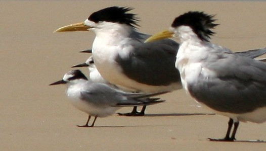 Little Tern Sternula albifrons, non-breeding plumage, with Crested Terns for size comparison